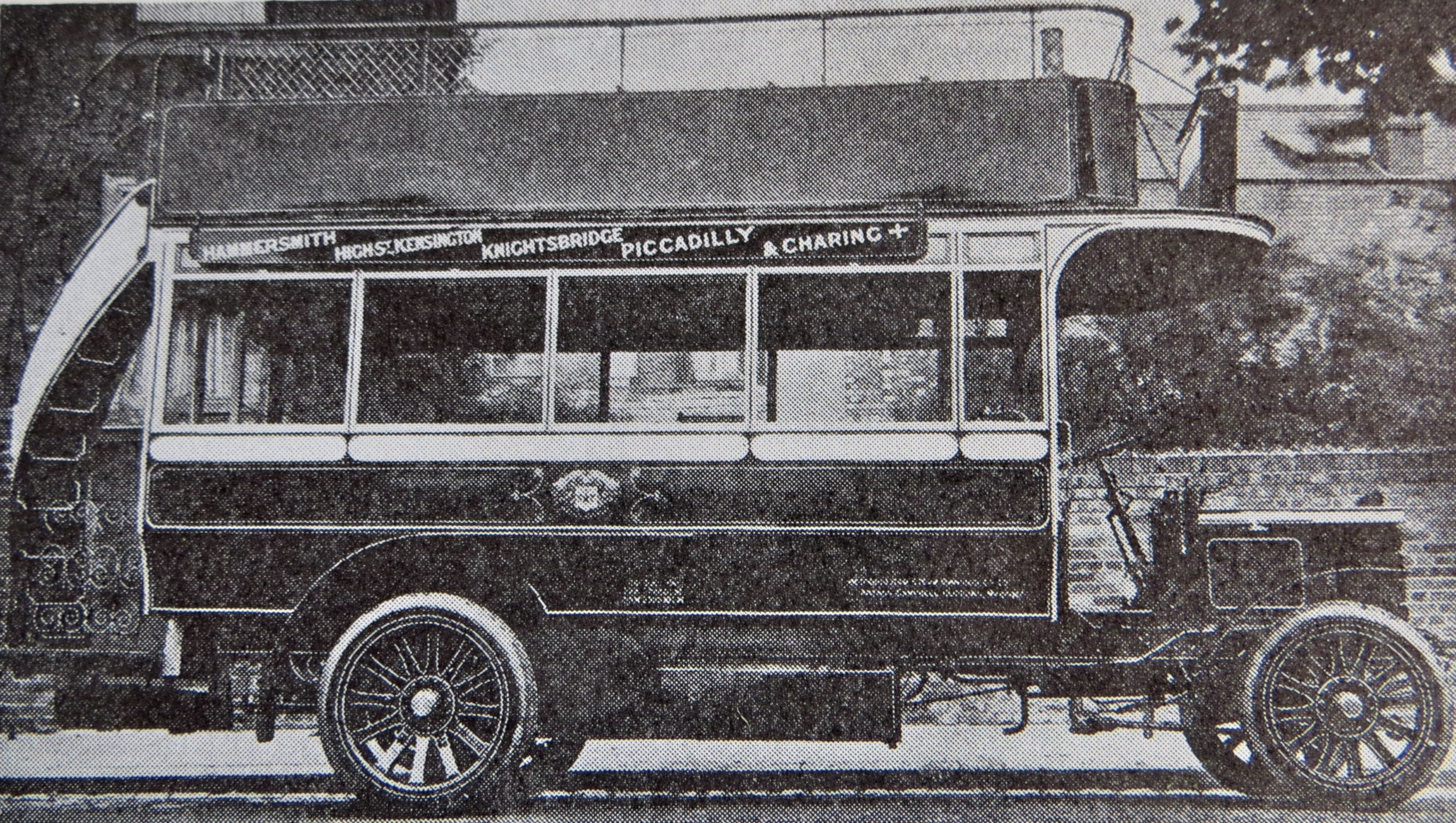 run by Metropolitan Steam Omnibus Co Ltd from 5 October 1907